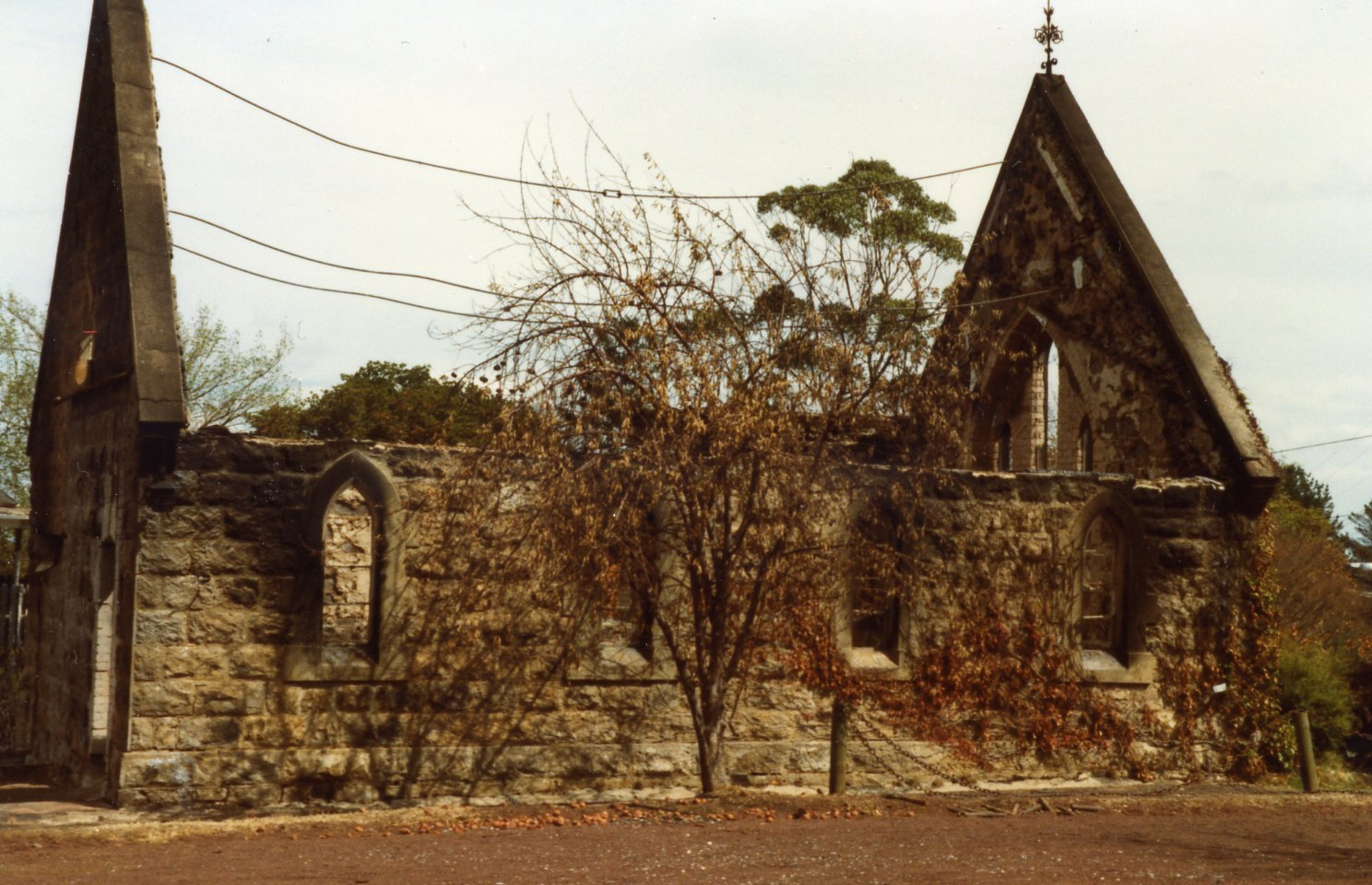 Mount Macedon Church. In February 1983 the Ash Wednesday fires destroyed over 400 homes, burned out 30 000 hectares of forest and farmland and killed seven people. The fires raced uncontrollably up the slopes of Mt Macedon and, despite the efforts of 1000 volunteer firefighters, a number of old homes were razed. Some have been rebuilt and most of the gardens re-established.